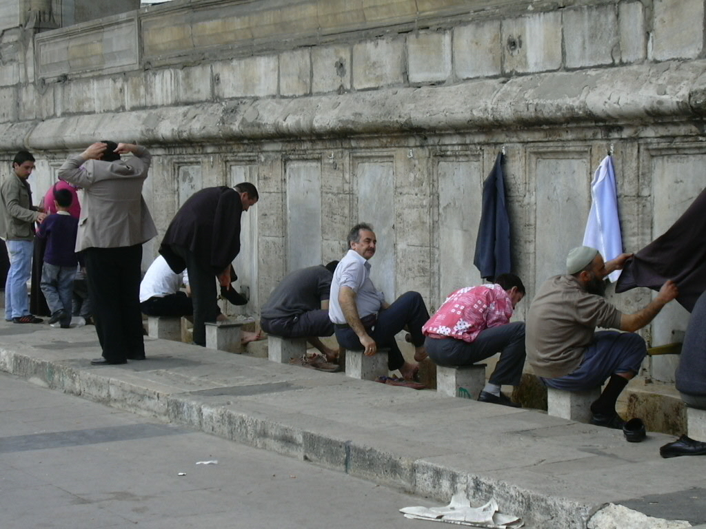 Muslim practice of ablution in a mosque of Istanbul.